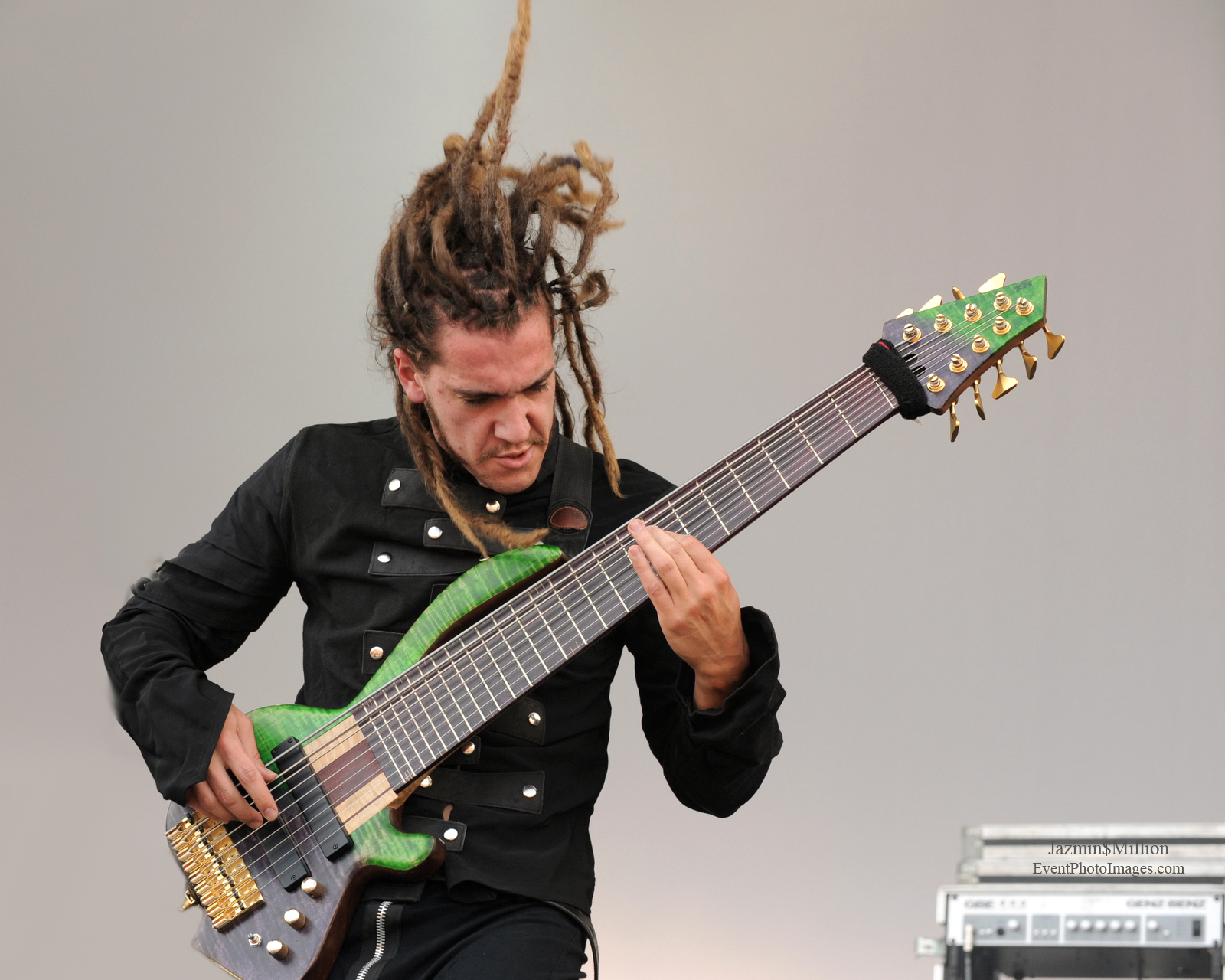 ChaotH from the band Unexpect playing his 9 string bass in concert.